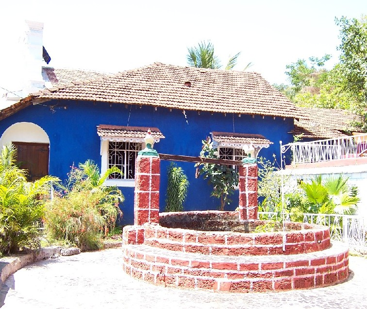 Amzing Blue House and the wishing well (dunno if it's actually called a wishing well). Fontainhas Goa.